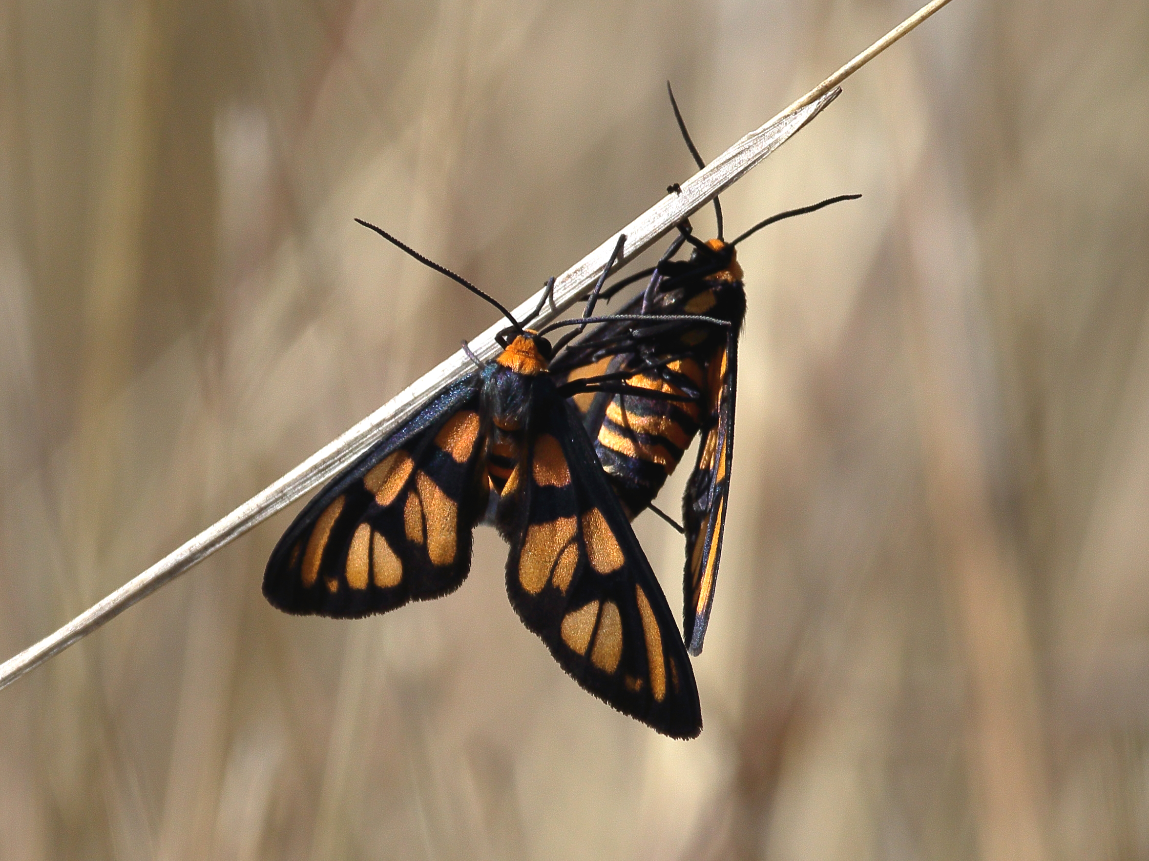 Mating moths (Amata antitheta) photographed at Reedy Brook station, Queensland, Australia